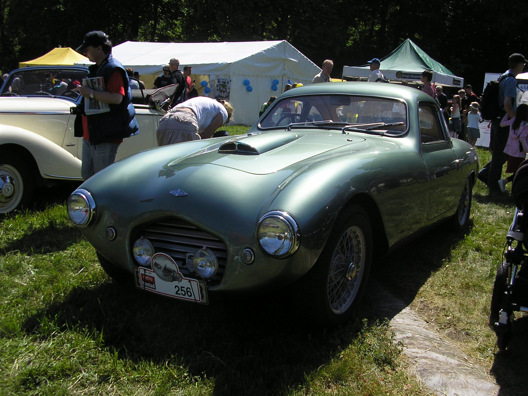 1955 Frazer Nash LeMans Coupé